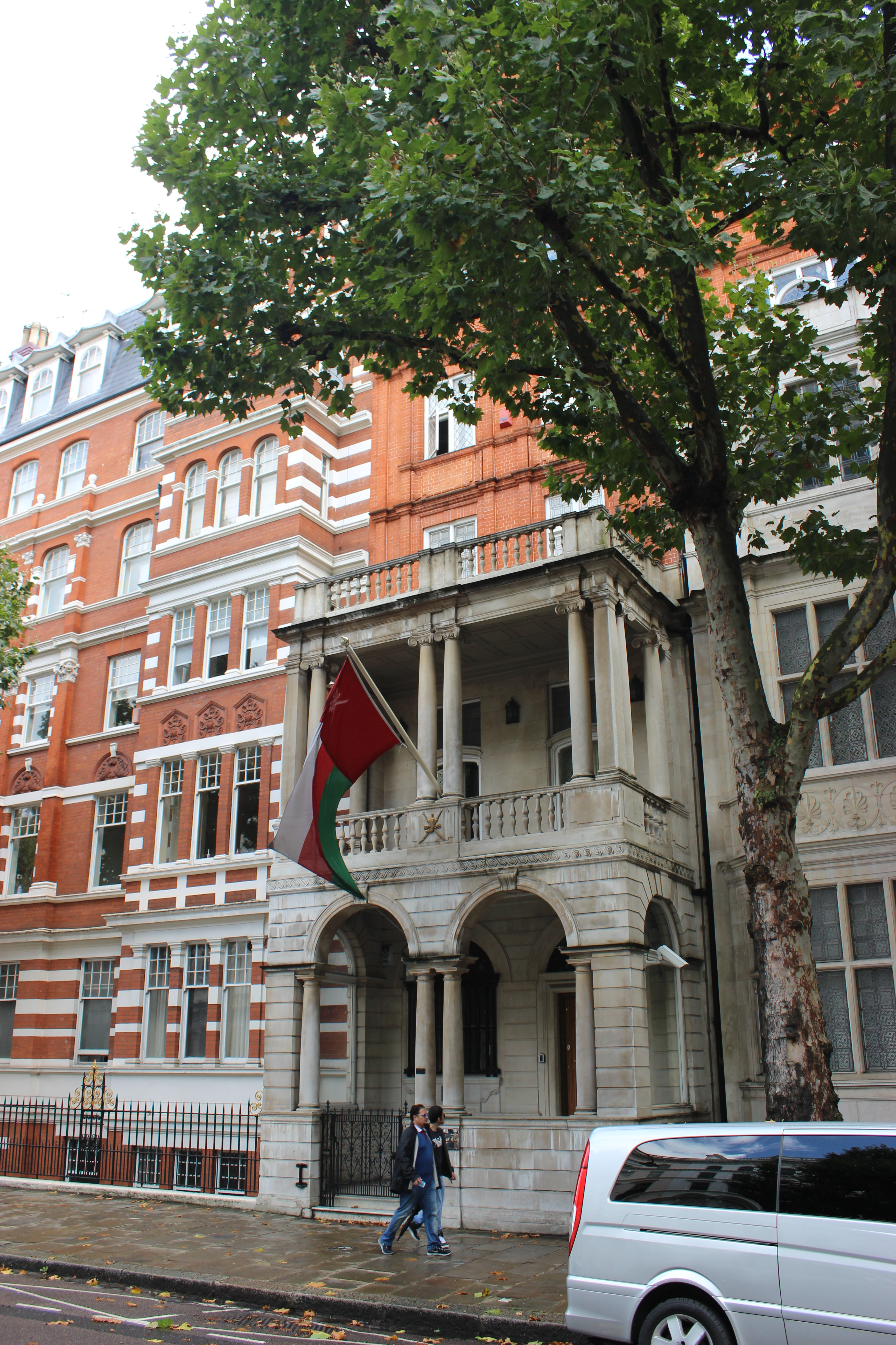 Embassy of Oman in London, 167 Queen's Gate, London, SW7 5HE